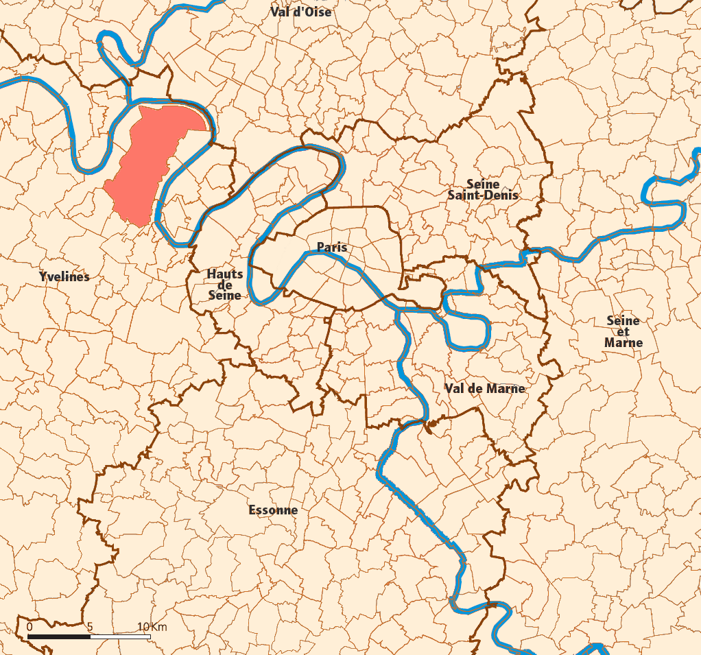 Created map myself.